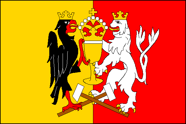 Municipal flag of Kutná Hora town, Kutná Hora District, Czech Republic.